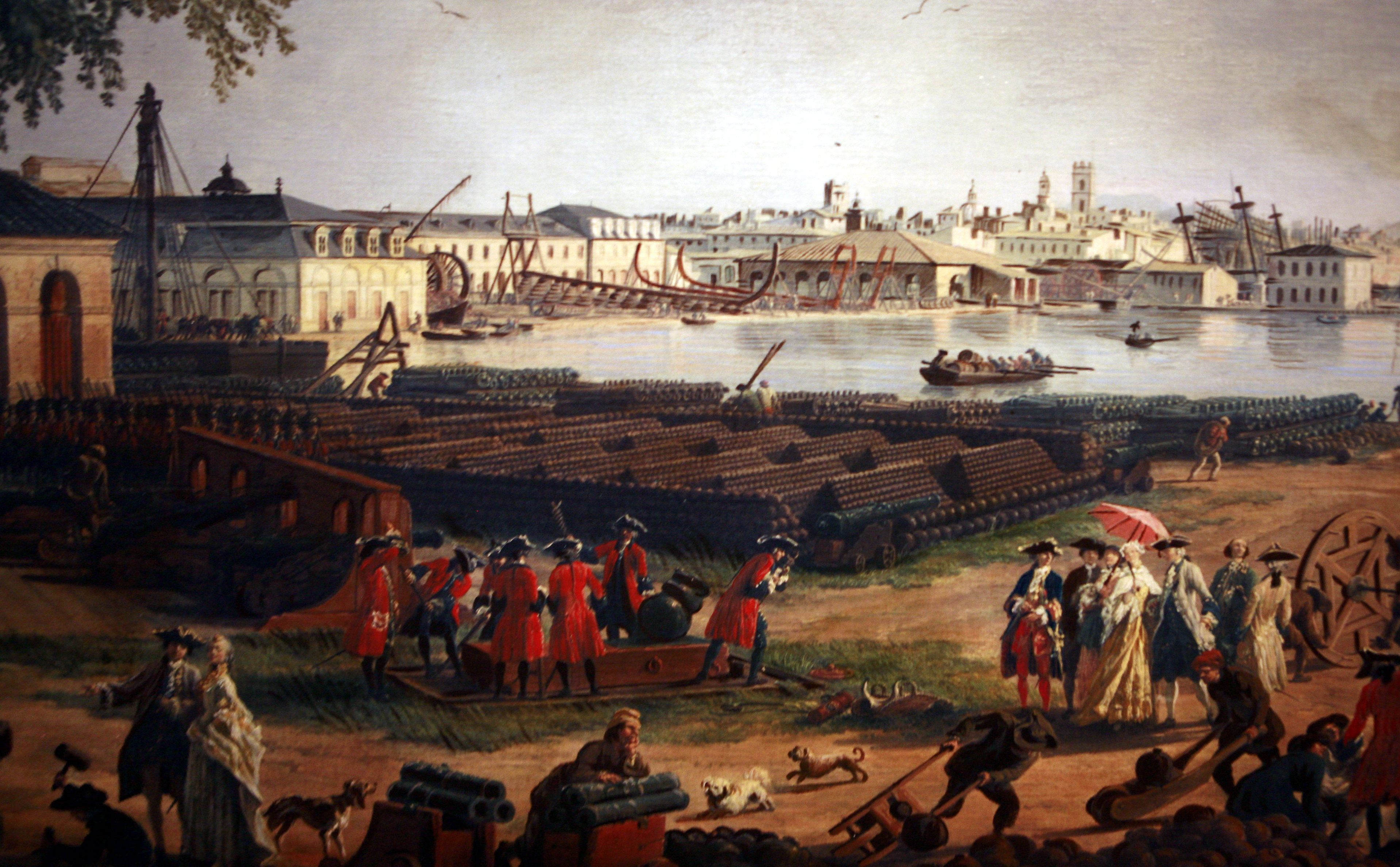 Series of paintings of the harbours of France